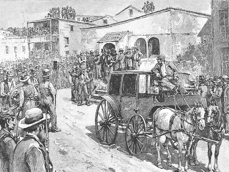 Contemporary lithograph depicting James Casey and Charles Cora being taken as prisoners of the San Francisco Vigilante Committee on May 18, 1856.